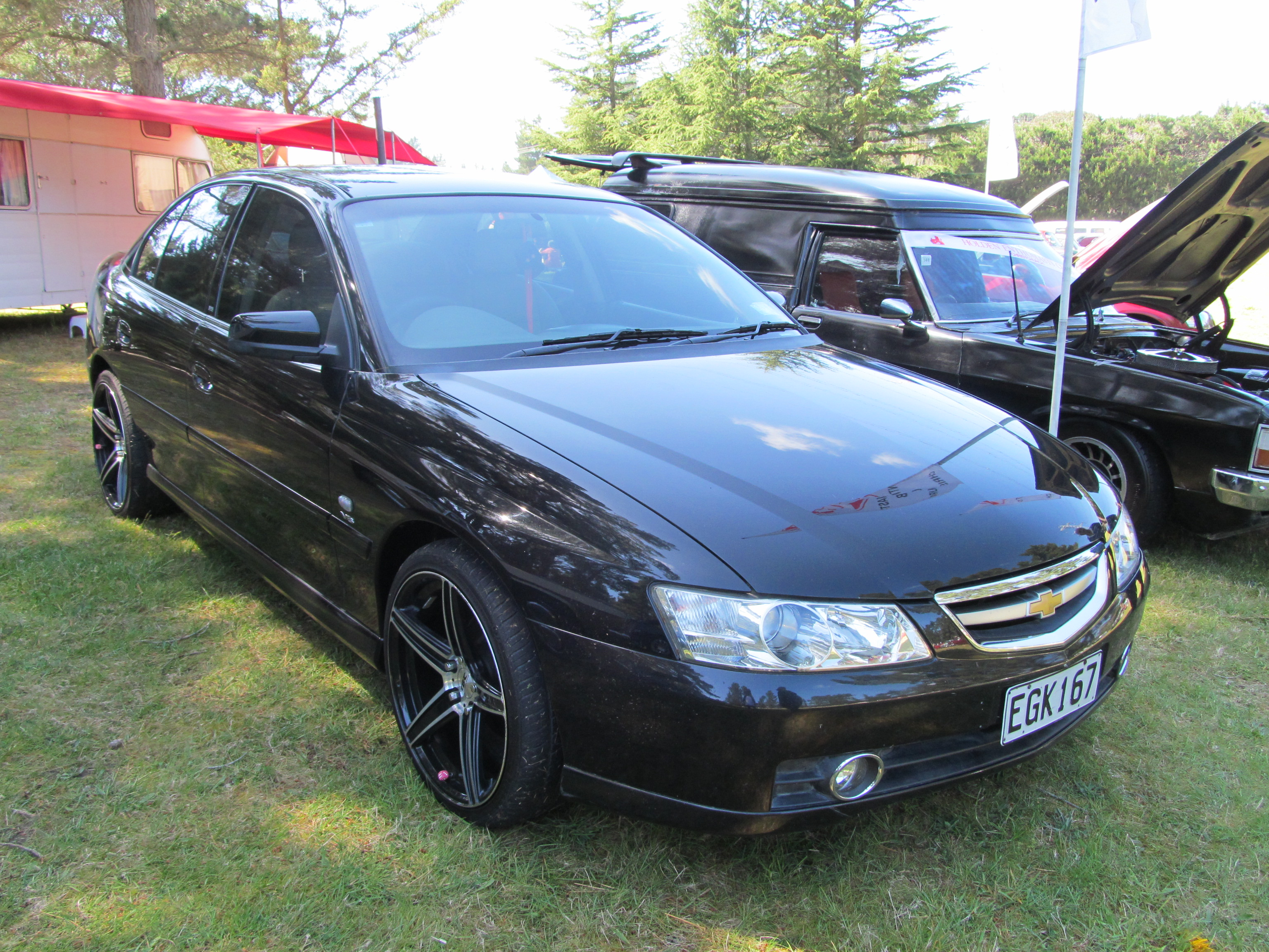 At first I thought this was a South African import, as I knew these Commodores are and have basically always been rebadged as Chevrolets for that market. However, upon further investigation it appears this car was imported from Singapore, a market I completely forgot Holden exported cars to. Interestingly when I was in Singapore last year I didn't see any of these - I imagine they sold in very small numbers. When it already costs so much to even gain the rights to own a car in Singapore, people tend to go for Mercs, BMWs, Audis and the like instead.